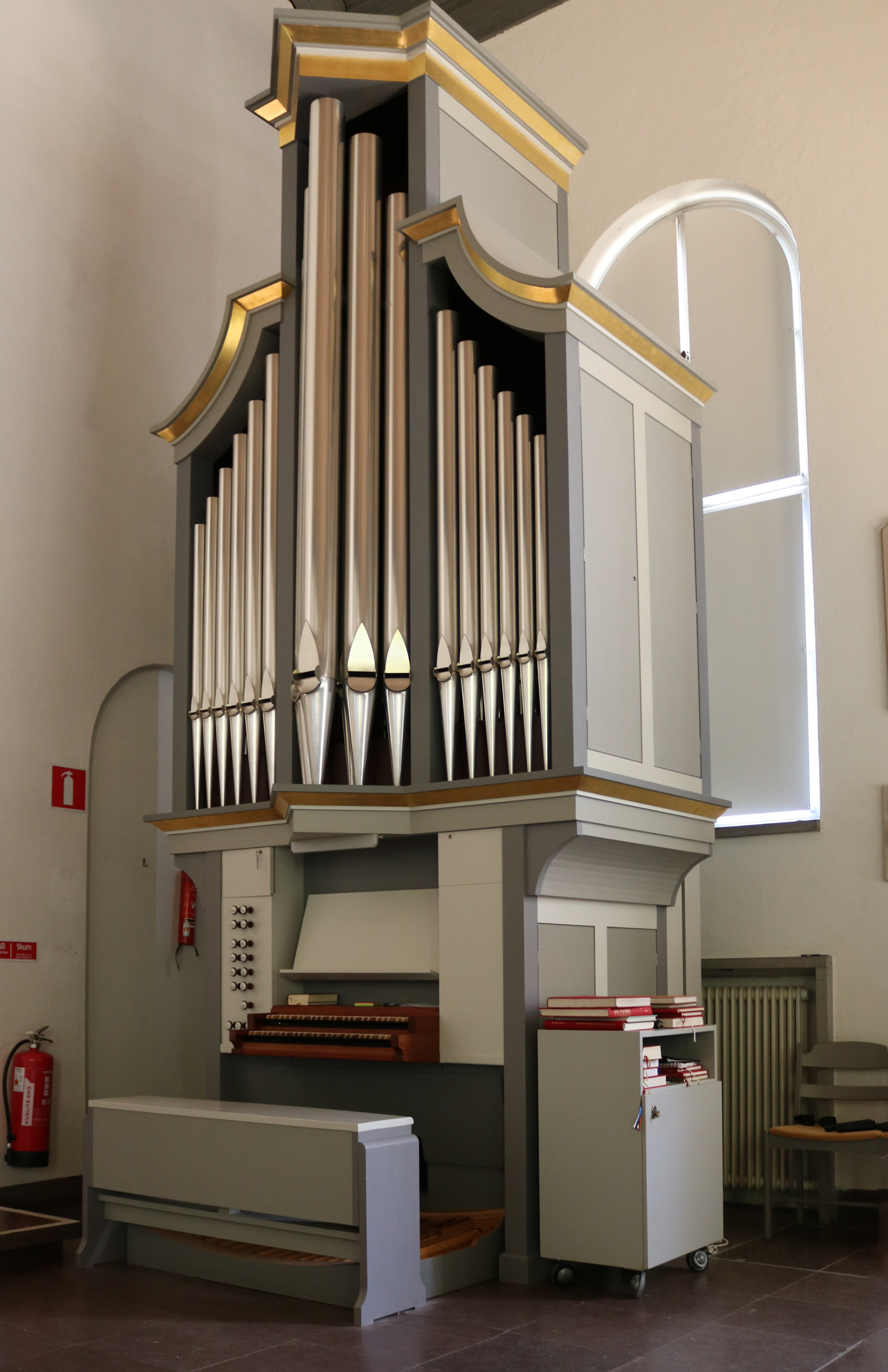 Nybro Church. The choir organ